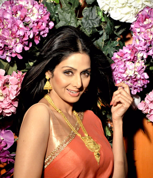 Sridevi at photo shoot for Tanishq jewellary